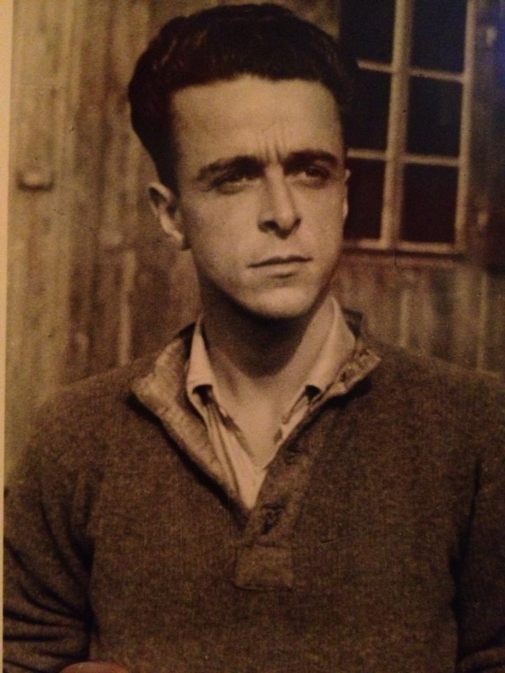 Portrait of the Italian journalist and writer Mauro Magni (1940).